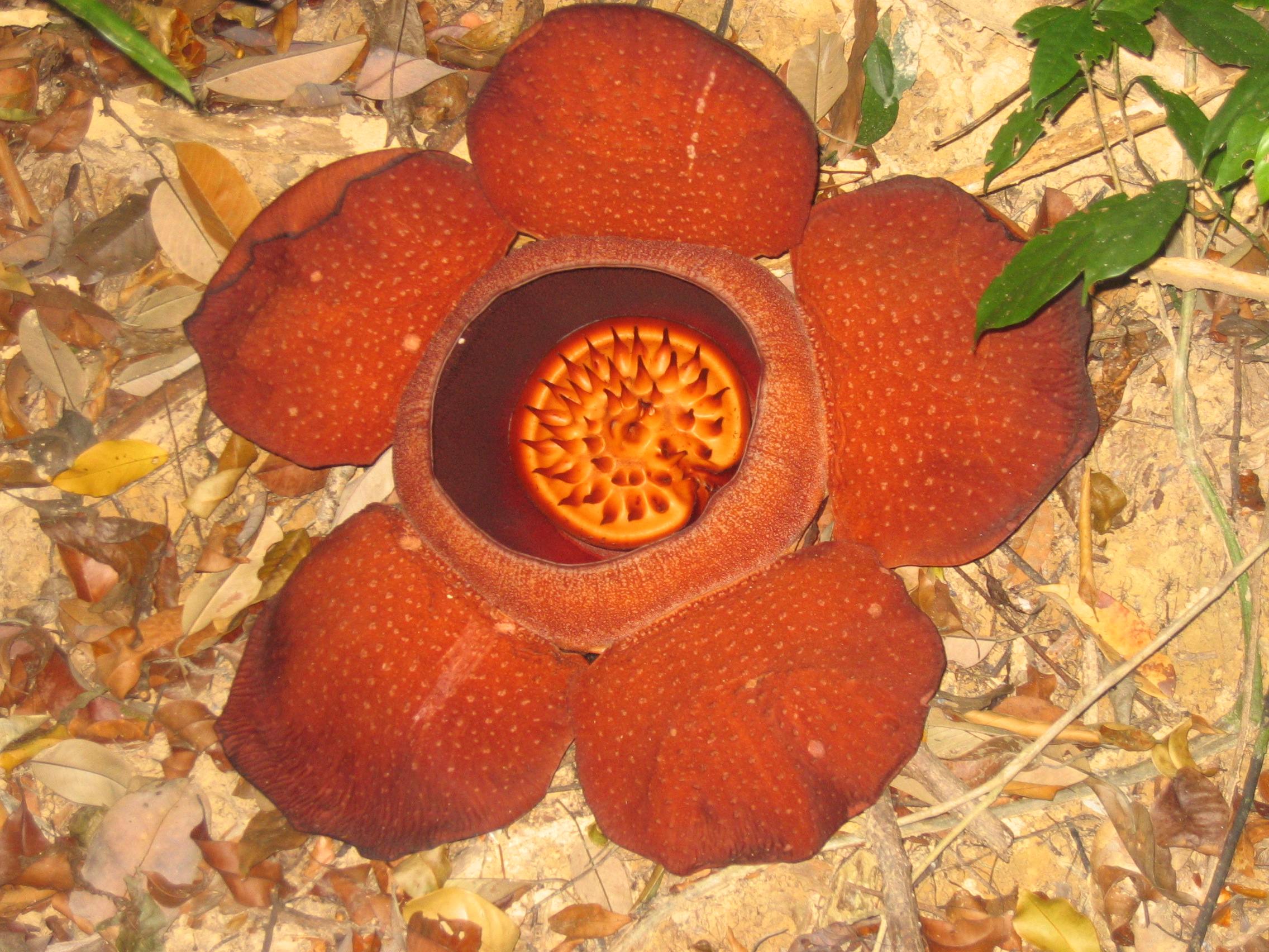 On February 13th, 2007 I visited Khao Sok Nat. Park, Prov. Phang Nga, South-Thailand and had a chance to take pictures from different phases of growth of Rafflesia kerrii Meijer. I have been guided by Park Ranger Khun Sutin. The pictures show the following details: 2 buds approx. 20 and 14 cm in diameter plus a small bud right above bud approx. 20 cm in diameter soon to burst open full blooming specimen approx. 60 cm in diameter faded specimen and beneath a bud approx. 18 cm in diameter